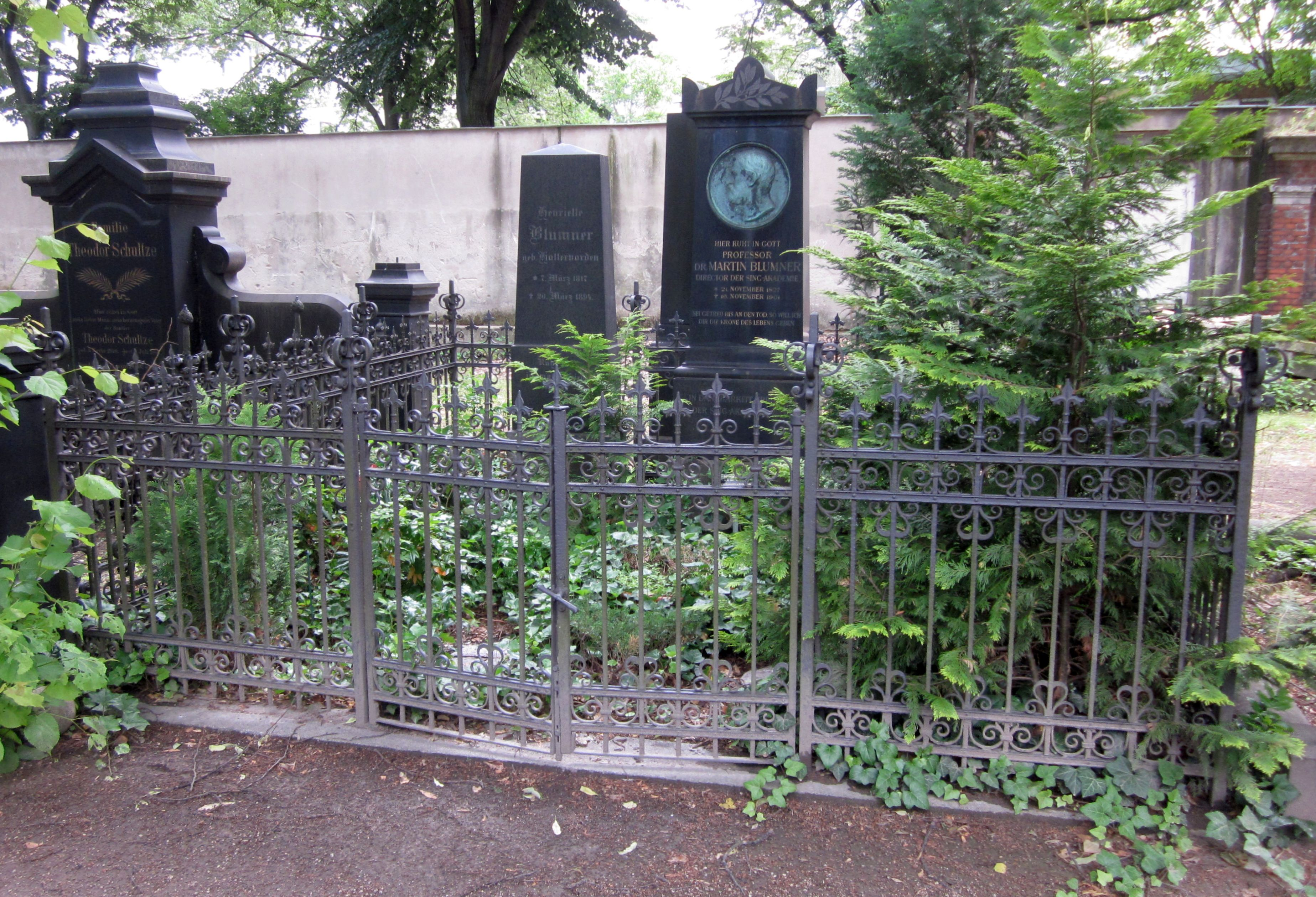 Grave of the composer, conductor, and music theorist Martin Blumner (1827-1901) on the Cemetery I of Trinity Church in Berlin-Kreuzberg. The gravestone bears a bronze relief portrait tondo created by Fritz Schaper.